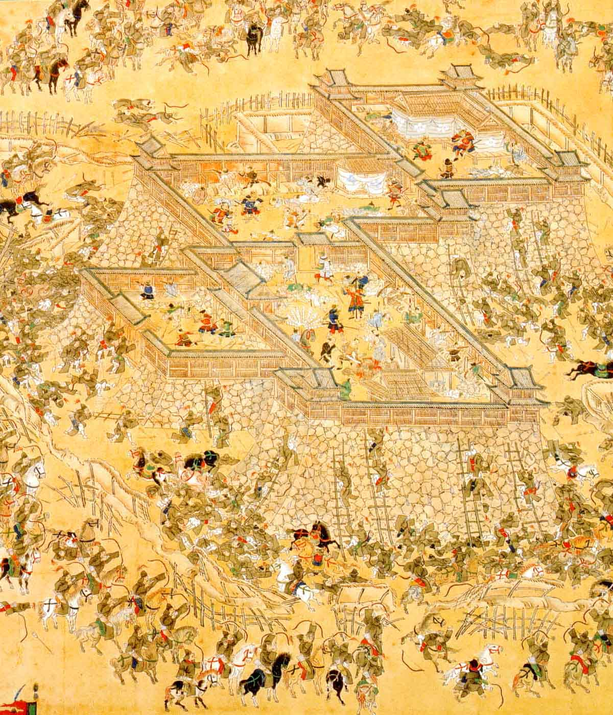 Representación del asedio de Ulsan